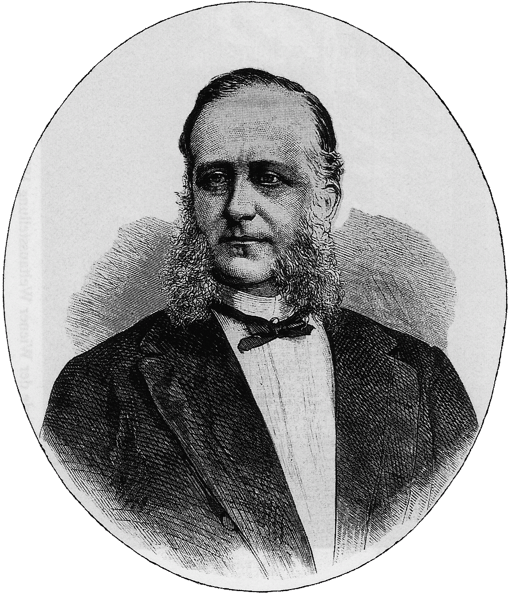 Wilhelm Schwarz-Senborn, Director of the Expo 1873